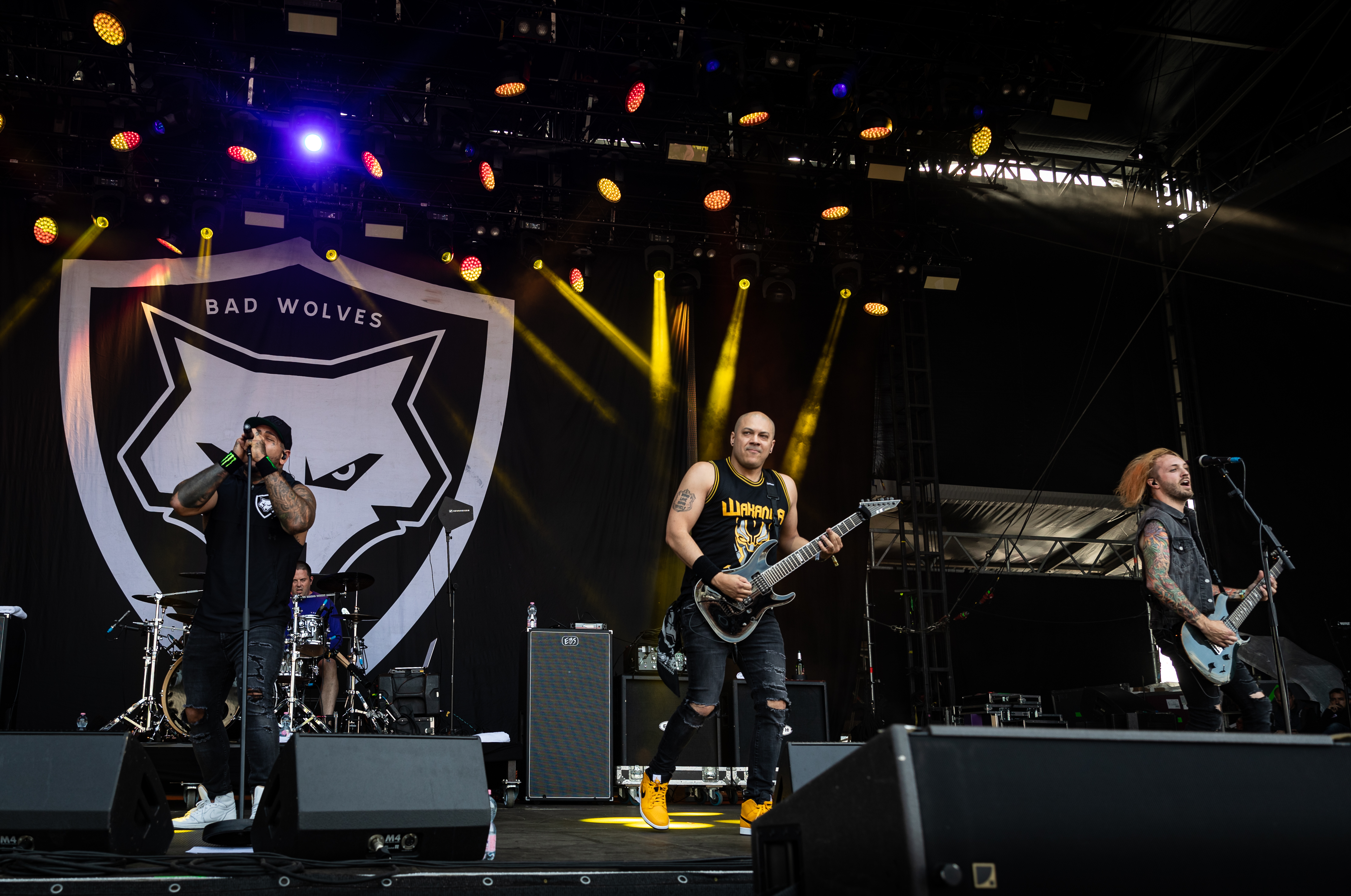 Bad Wolves - Rock am Ring 2019